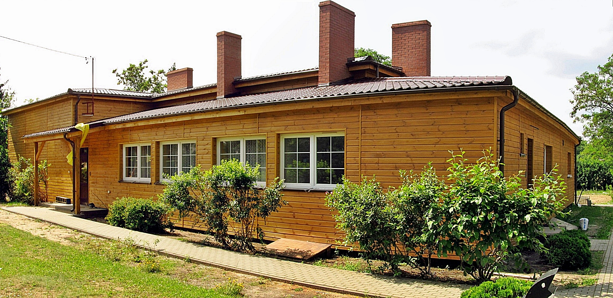 Landscape Nursery in Kaliskach